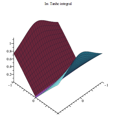 Tanhc integral Im 3D plot